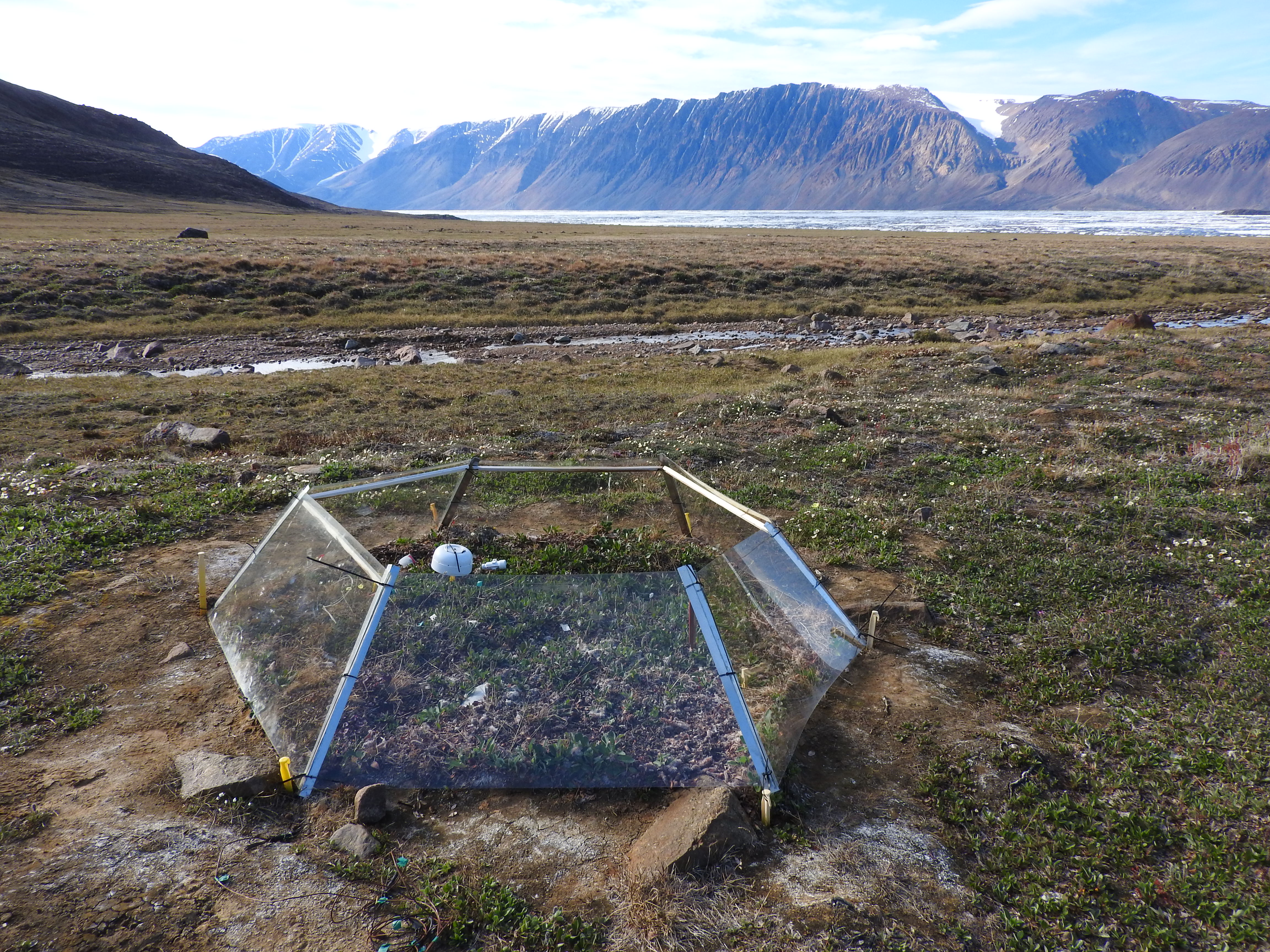 Open-top chamber (OTC) at Alexandra Fiord, Ellesmere Island by Cassandra Elphinstone